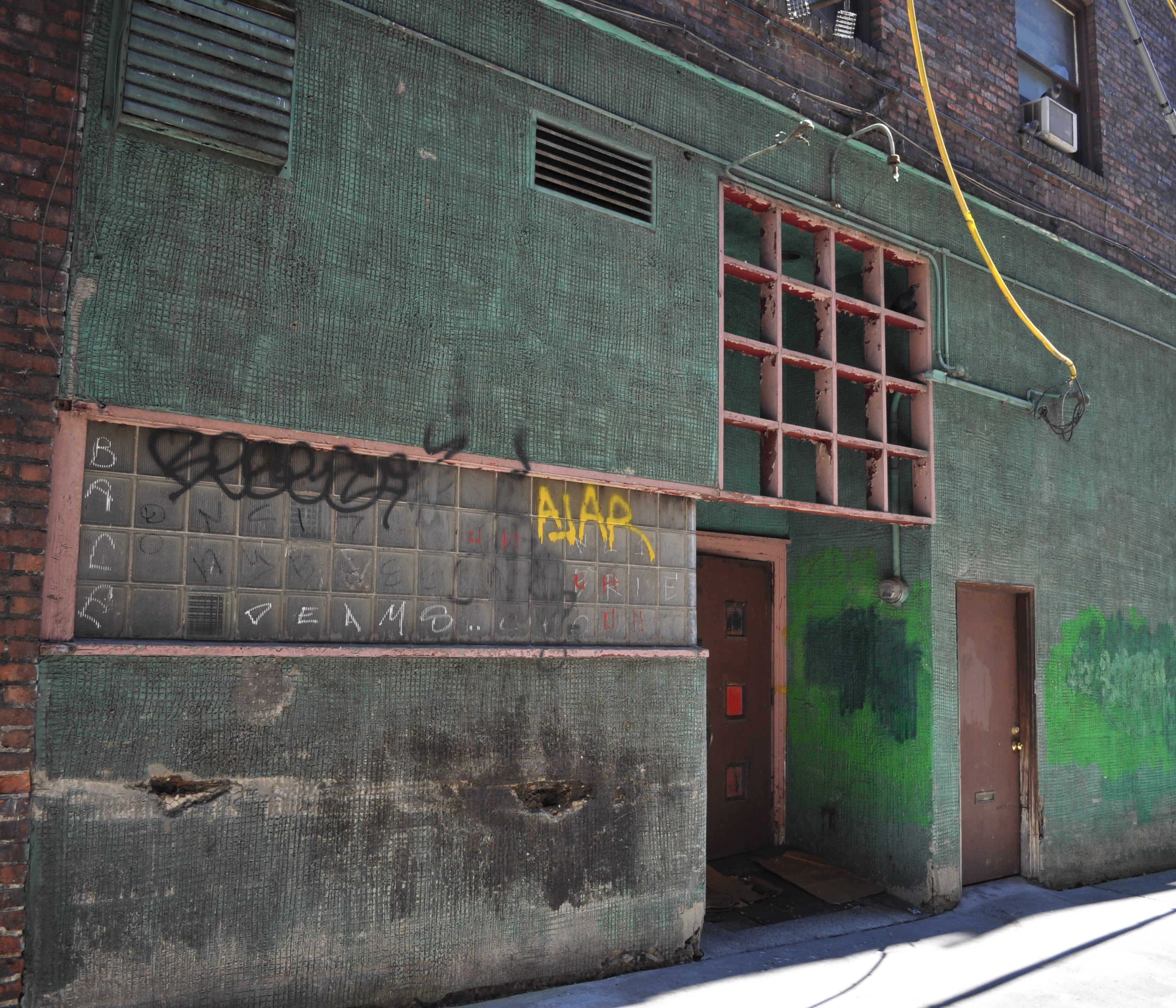 Maynard Alley, International District, Seattle, Washington, looking roughly southeast. The former Wah Mee club, site of the Wah Mee massacre, still padlocked 27 years later; and Liem's Aquarium (tropical fish).